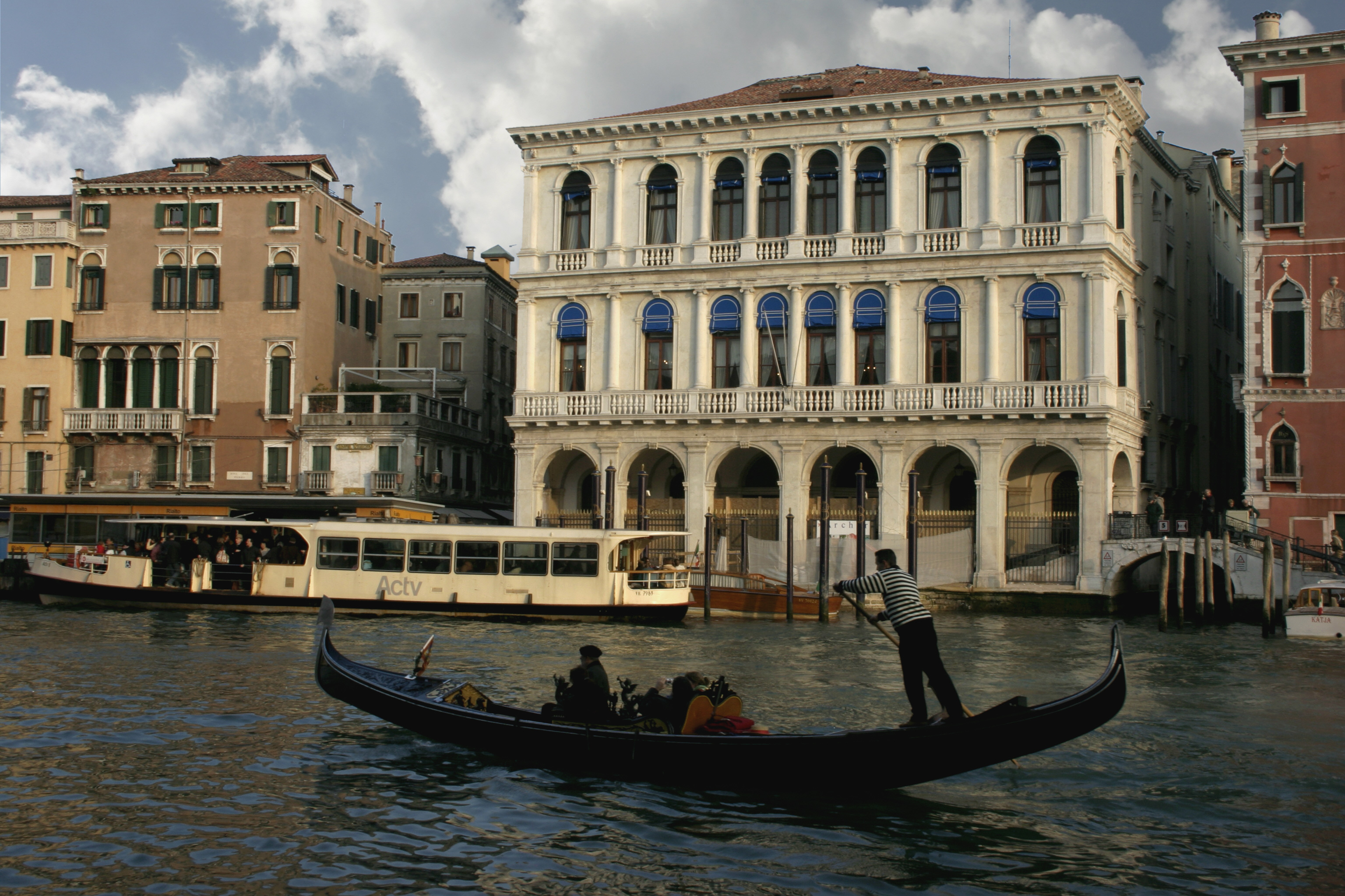 Venice - Palazzo Dolfin-Manin on the Grand Canal